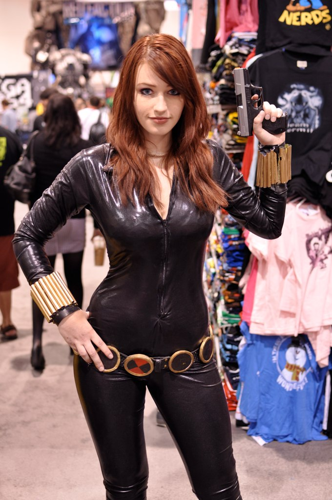 Black Widow, San Diego, Comic Con 2010